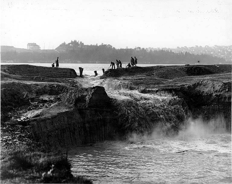 Photograph titled "Cutting away the cofferdam at the Montlake Cut between Lake Washington and Lake Union." On verso of photo: Letting Lake Union into Lake Washington Canal - Dec. 1913.